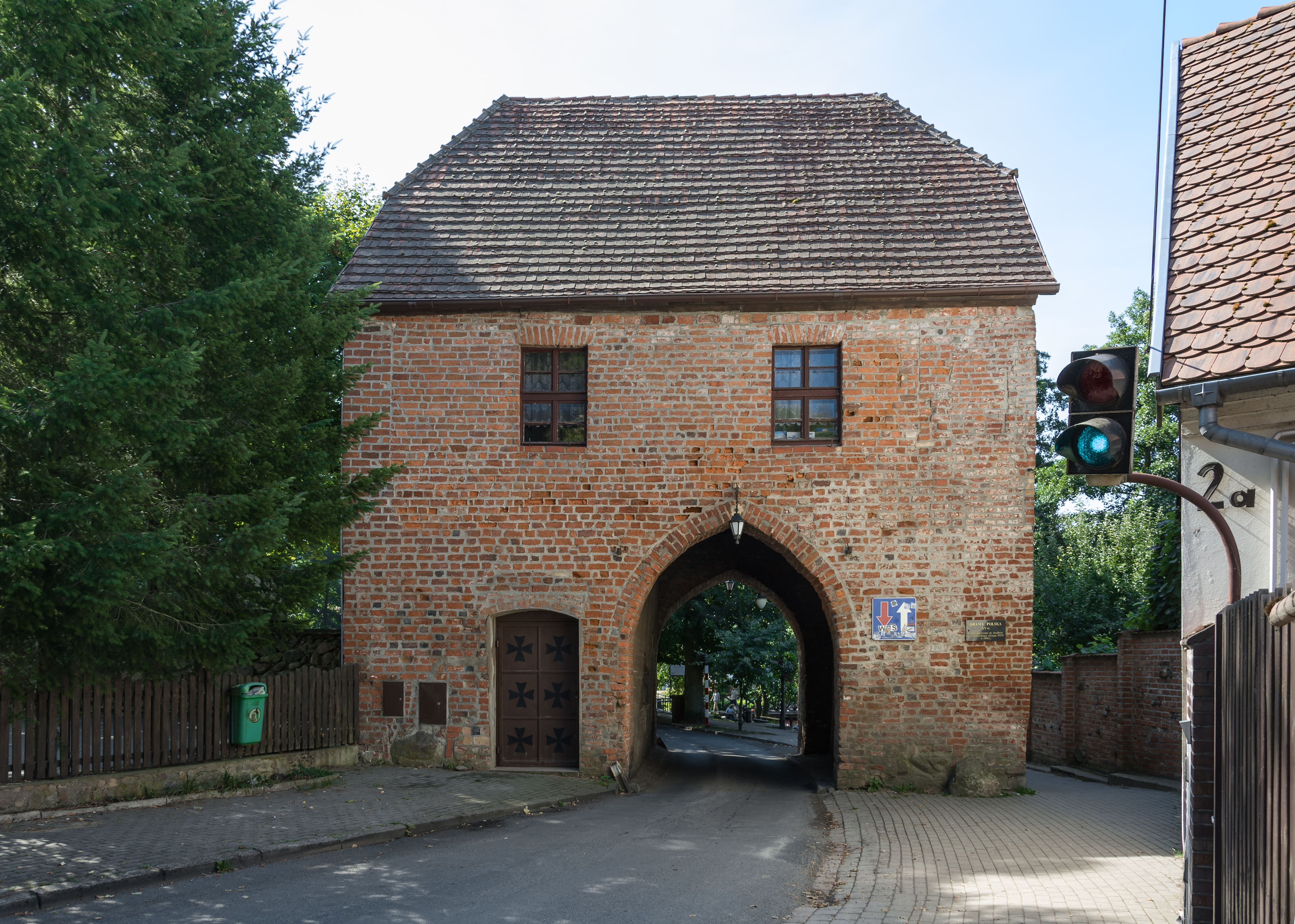 Polish Gate in Łagów Wikidata has entry Q30135253 with data related to this item.